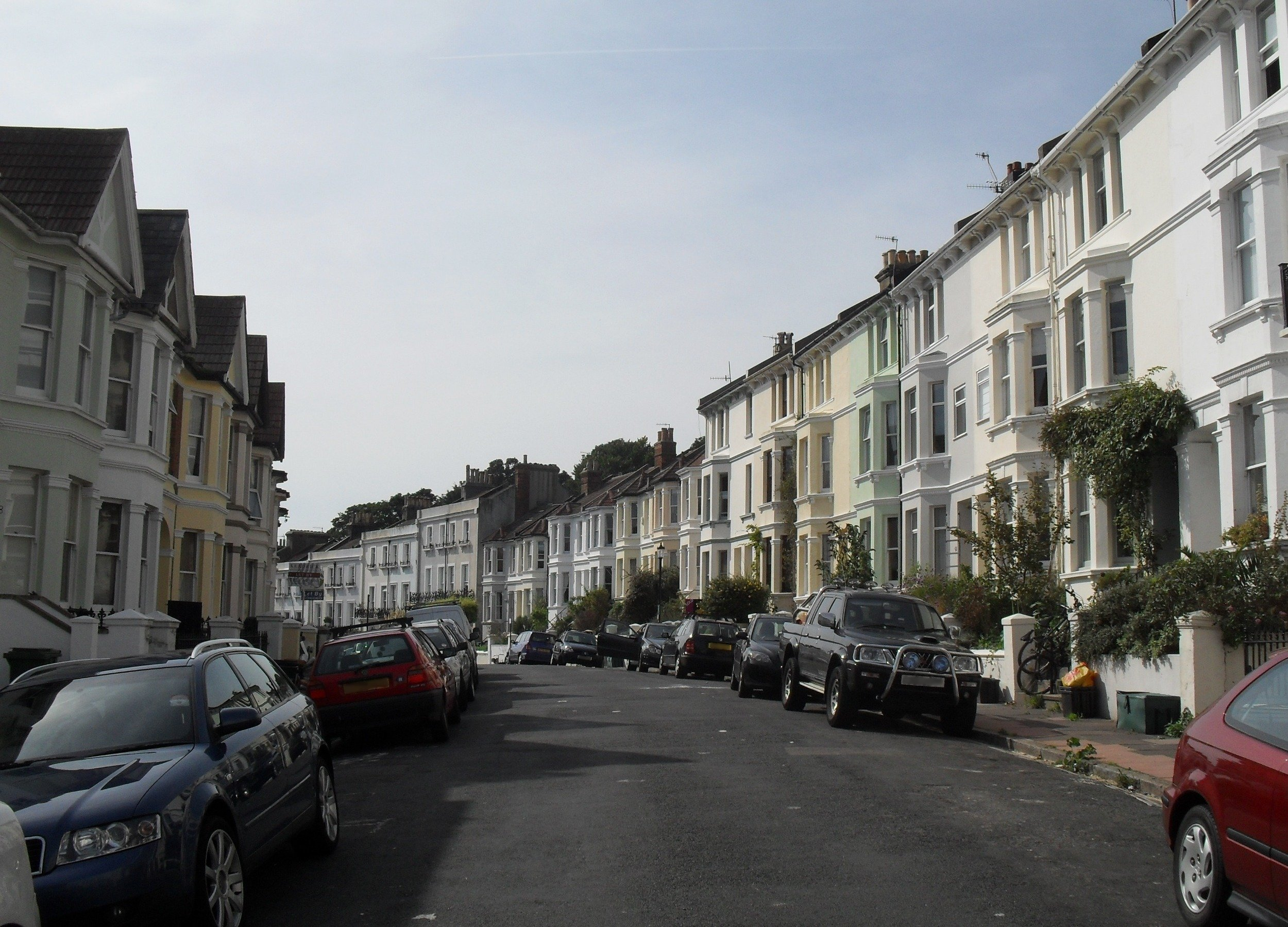 Houses on Roundhill Crescent, Round Hill, Brighton, City of Brighton and Hove, East Sussex, England. Mid 19th-century terraced houses within the "Round Hill" Conservation Area.